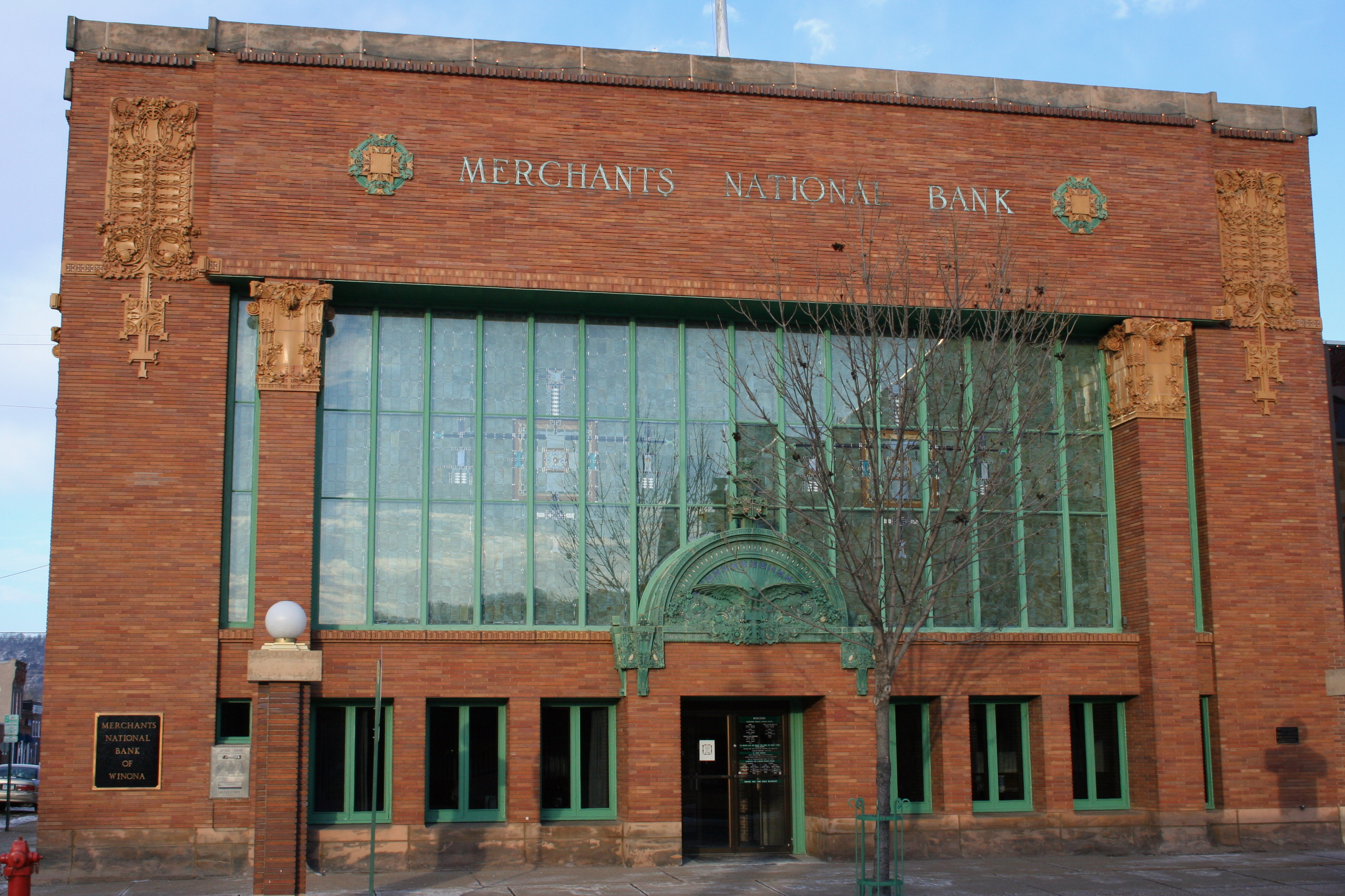 Merchants National Bank at 102 East Third Street in downtown Winona, Minnesota.